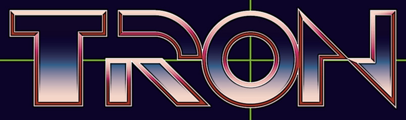 Tron movie 1982 logo